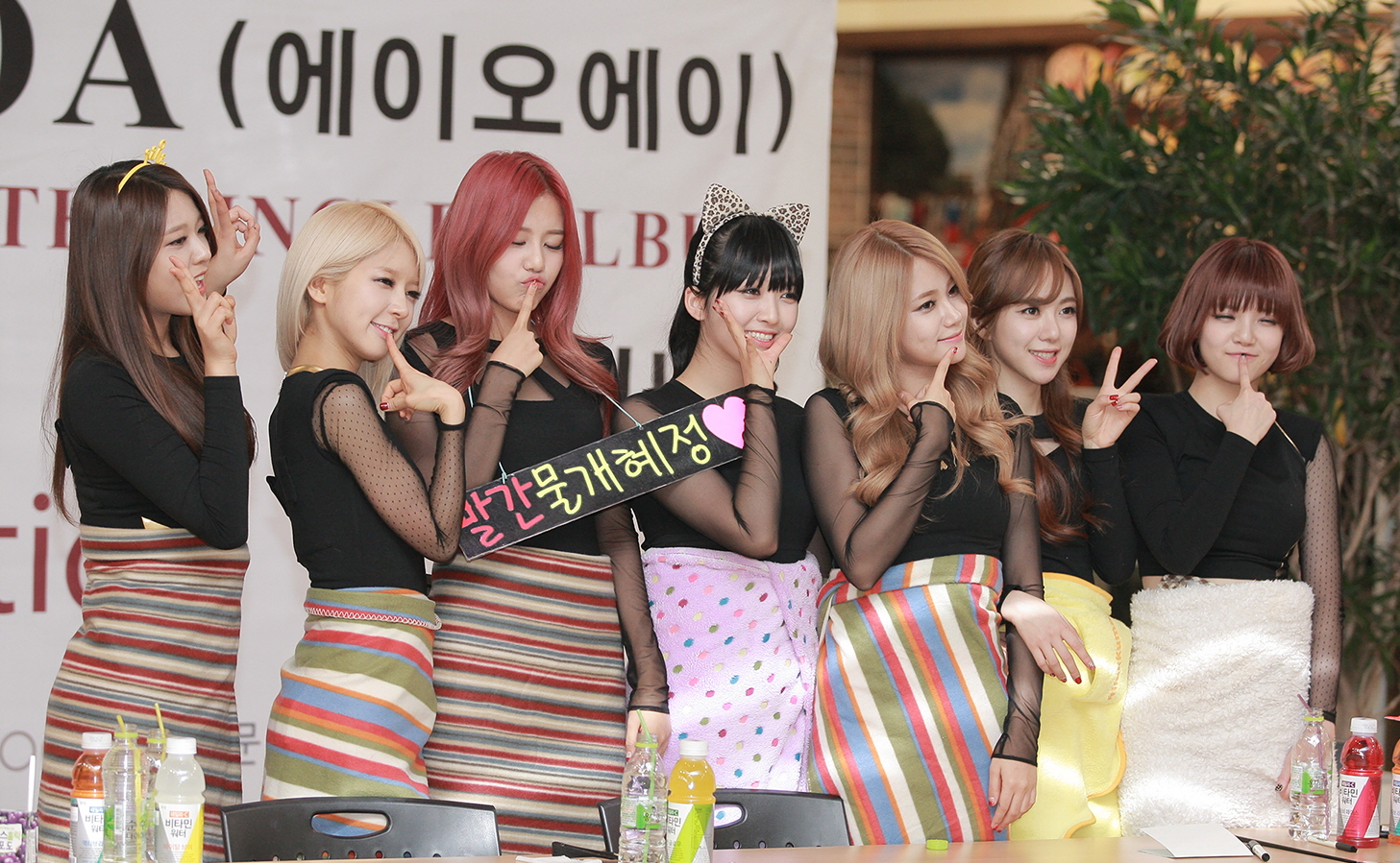 AOA (South Korean girl group) at Gimpo Airport, Seoul, in October 2013